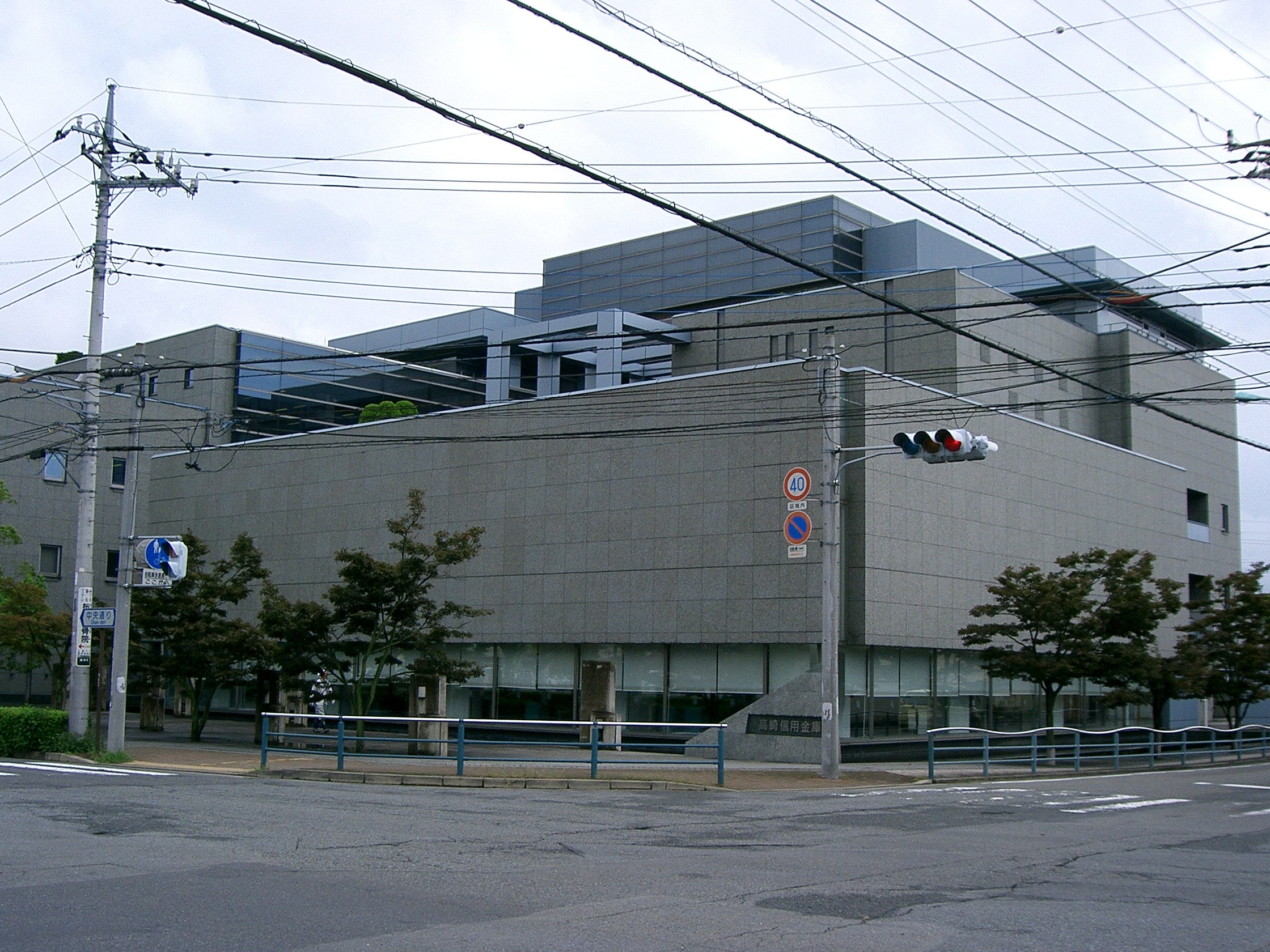 Head office of Takasaki Shinkin Bank